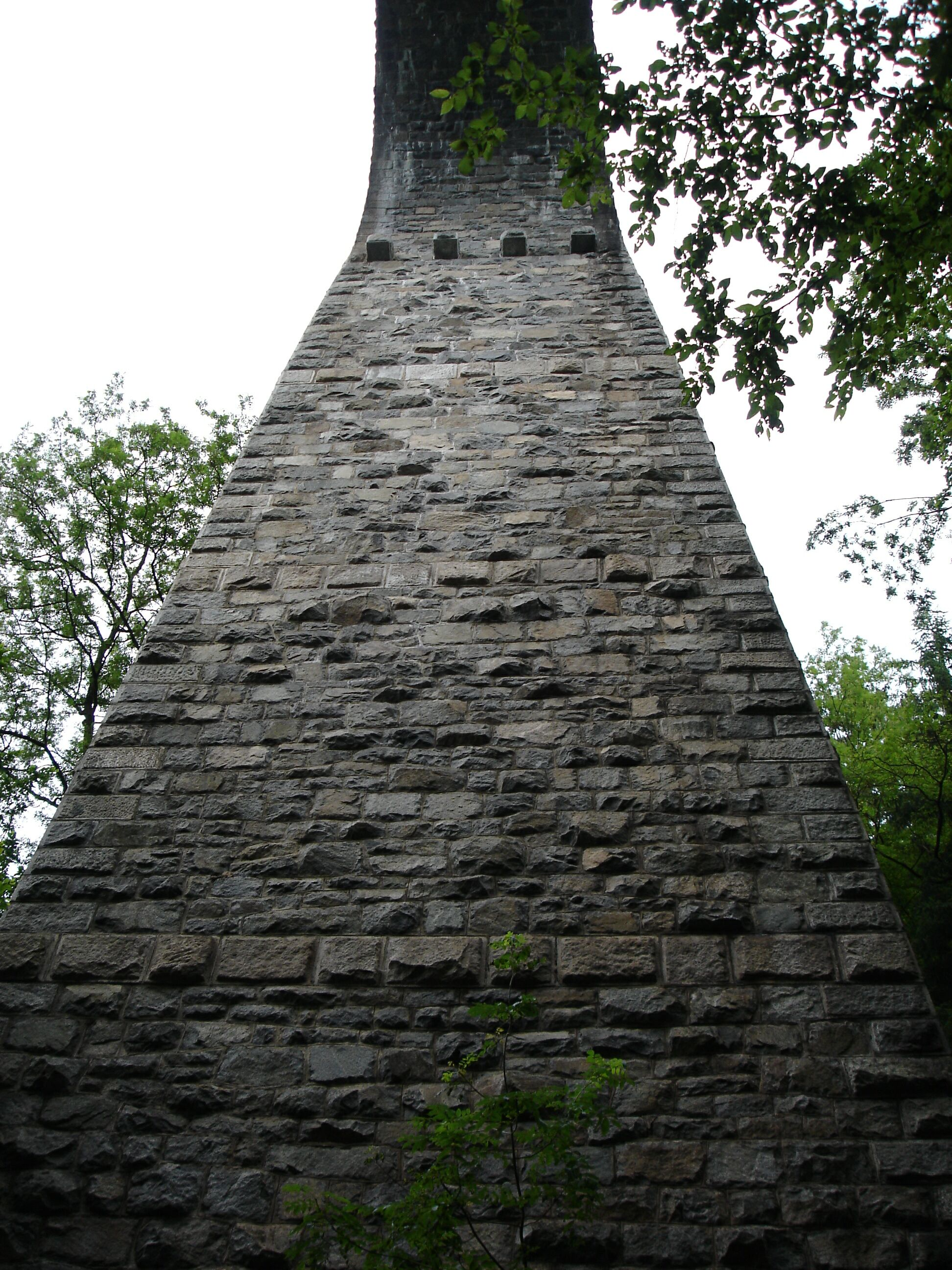 Žampach bridge, Czech Republic.